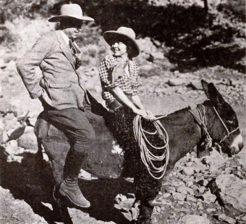 Still from the American drama film The Sky Pilot (1921) with director King Vidor and actress Colleen Moore, on page 36 of the November 27, 1920 Exhibitors Herald.